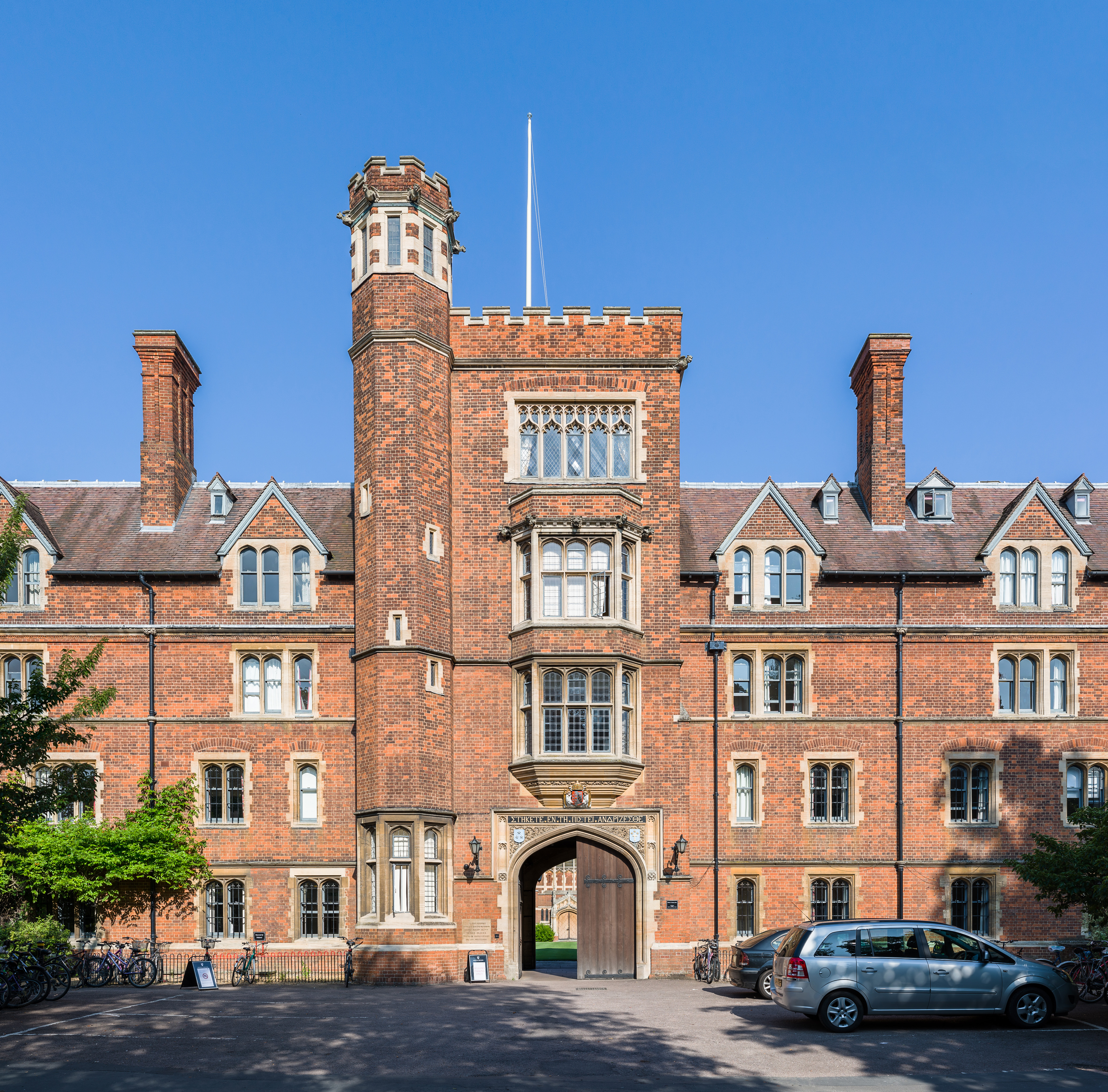 The gatehouse tower of Selwyn College in Cambridge, England.